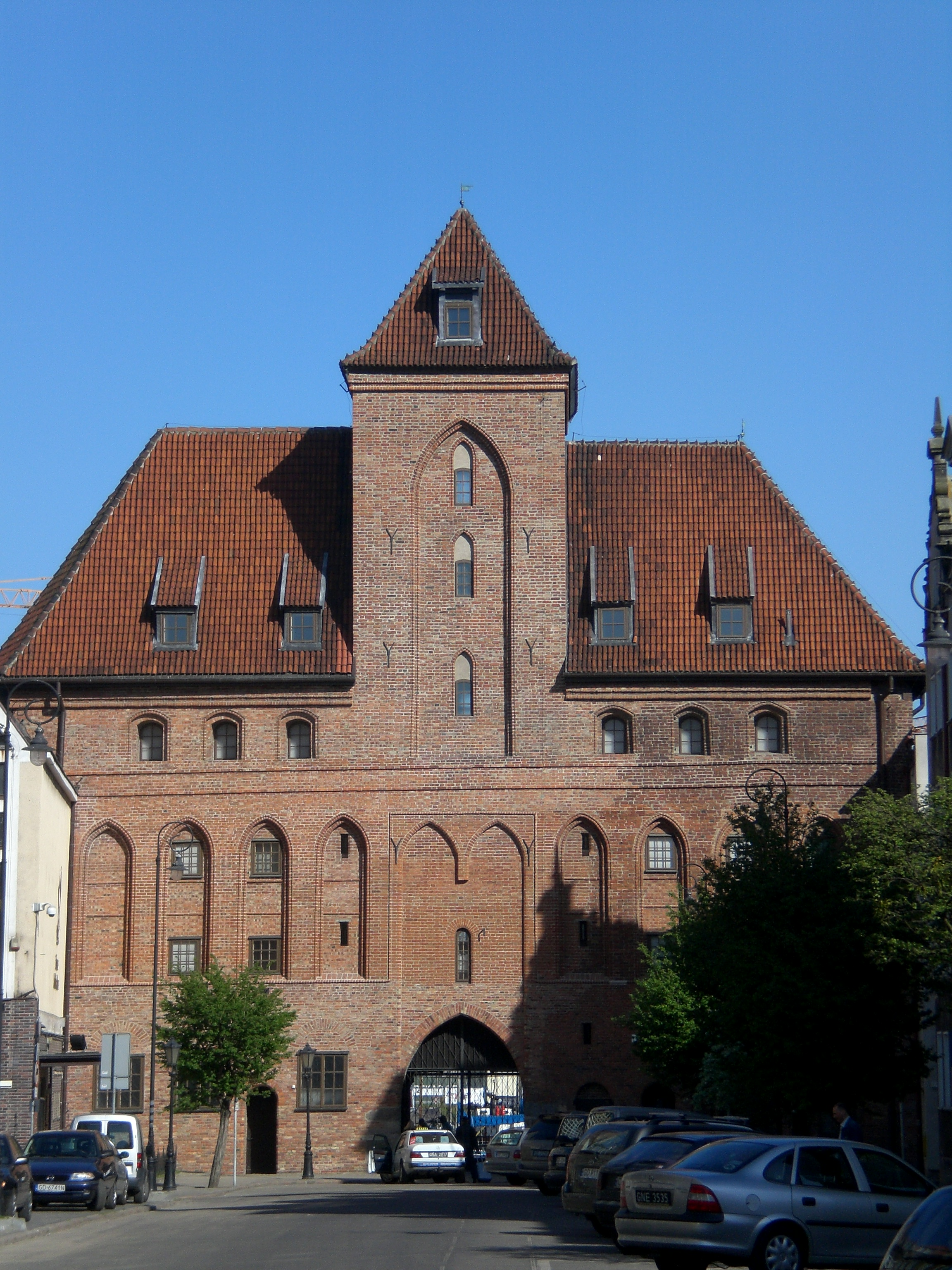 Szeroka Street and Żuraw Gate in Gdańsk